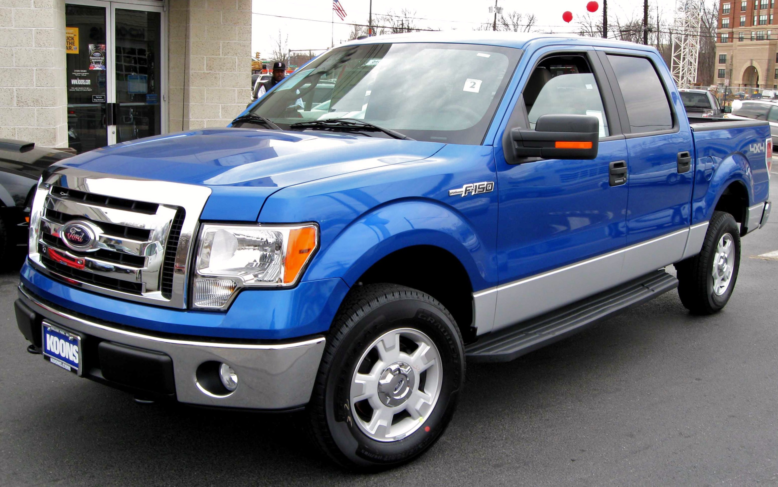 2009 Ford F-150 photographed in College Park, Maryland, USA.